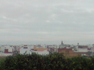 Los Palacios y Villafranca's church, situated in the town's center. Province of Seville, Andalusia, Spain.